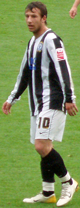 Adam le Fondre. Image cropped from original at flickr.